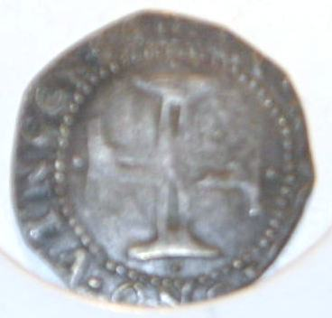 Portuguese coins at the Muzium Negara, Kuala Lumpur.